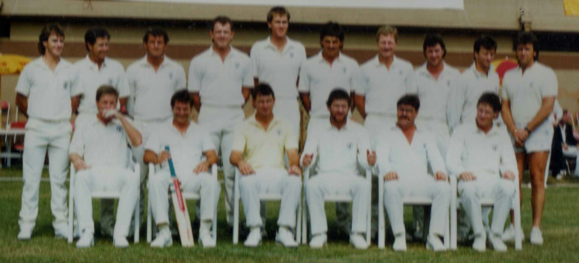 The Austrlian cricket team in Hong Kong en route back form a tour of Pakistan